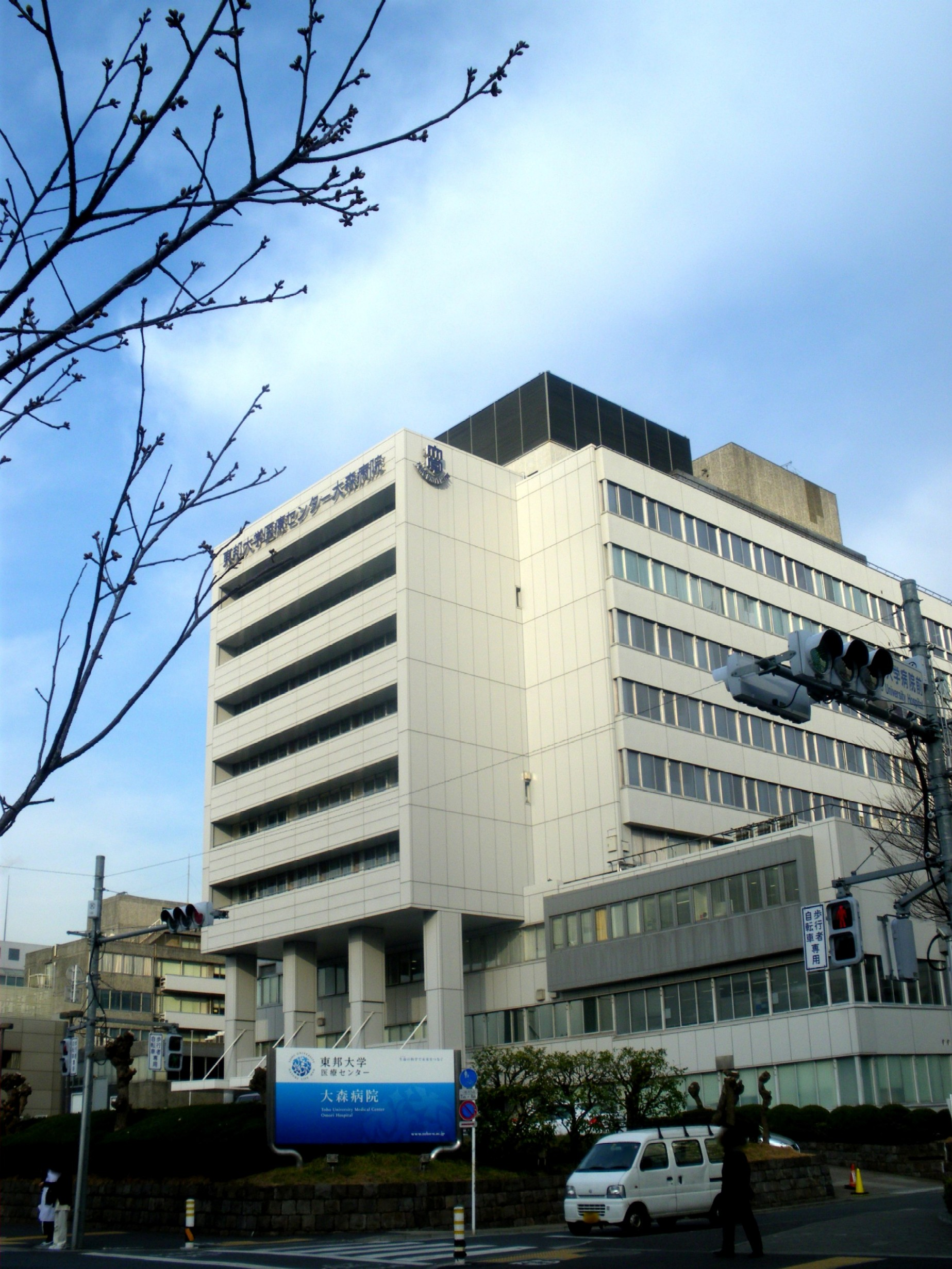 Toho University Medical Center Omori Hospital